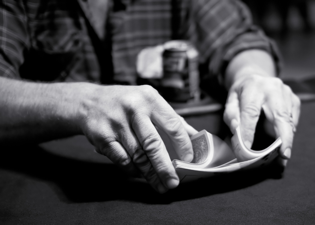 A riffle shuffle being performed during a game of poker at a bar near Madison, Wisconsin